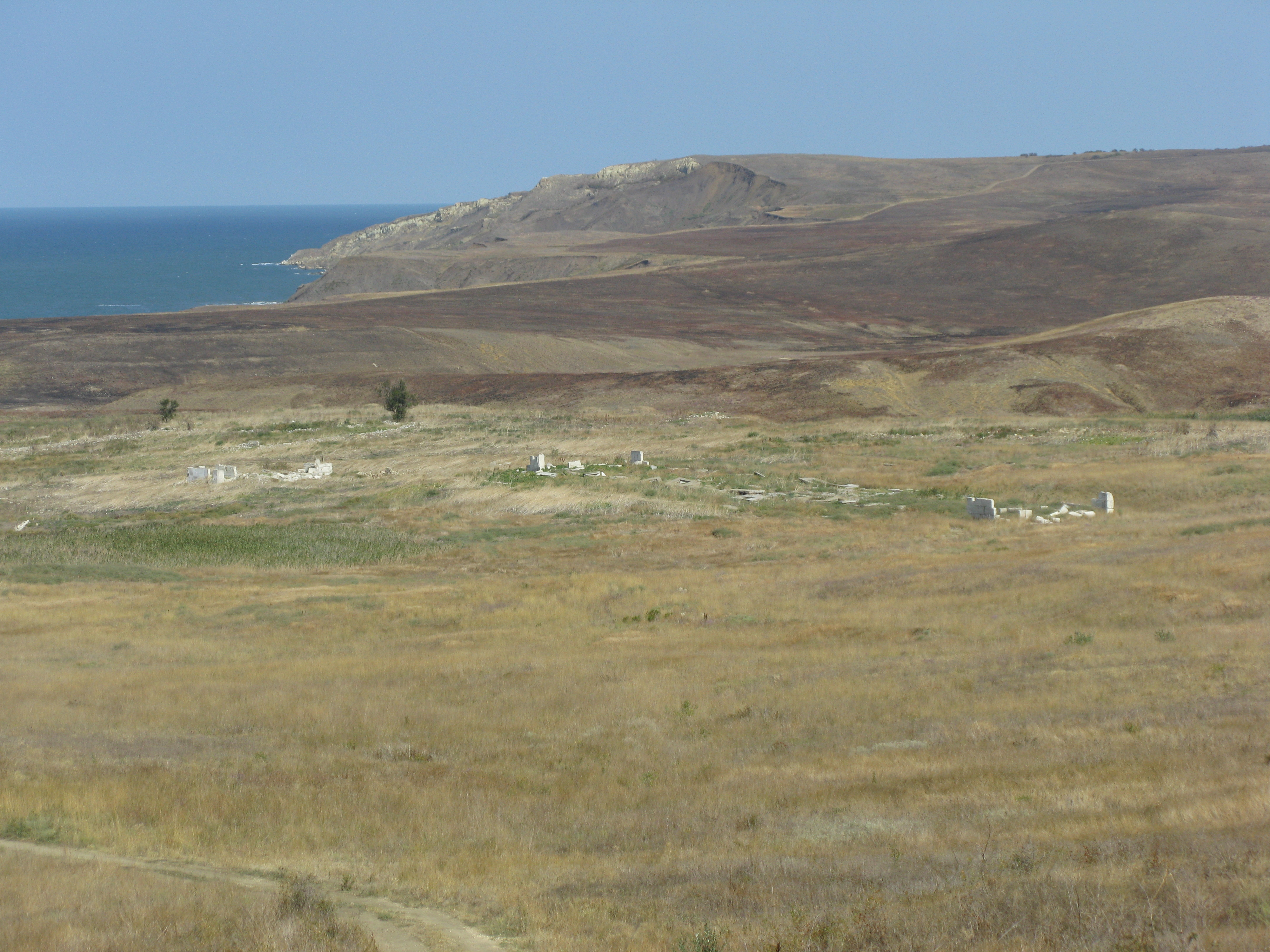 The ruins of the village Tarhan, Leninsky district, Crimea.